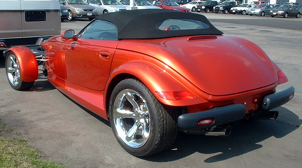 crop on an existing Plymouth Prowler image to cut out the "We Finance" sign on wall in the background